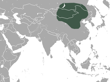 Daurian Hedgehog (Mesechinus dauuricus) range